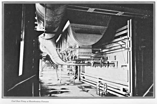 Pulverized coal burners heating the reverberatory furnaces of the Washoe Works of the Anaconda Copper in 1920. The hearths are 20 feet and 4 inches wide and one 143 feet long; and the area is 16 times as great as in the furnaces used by the Company in 1884.